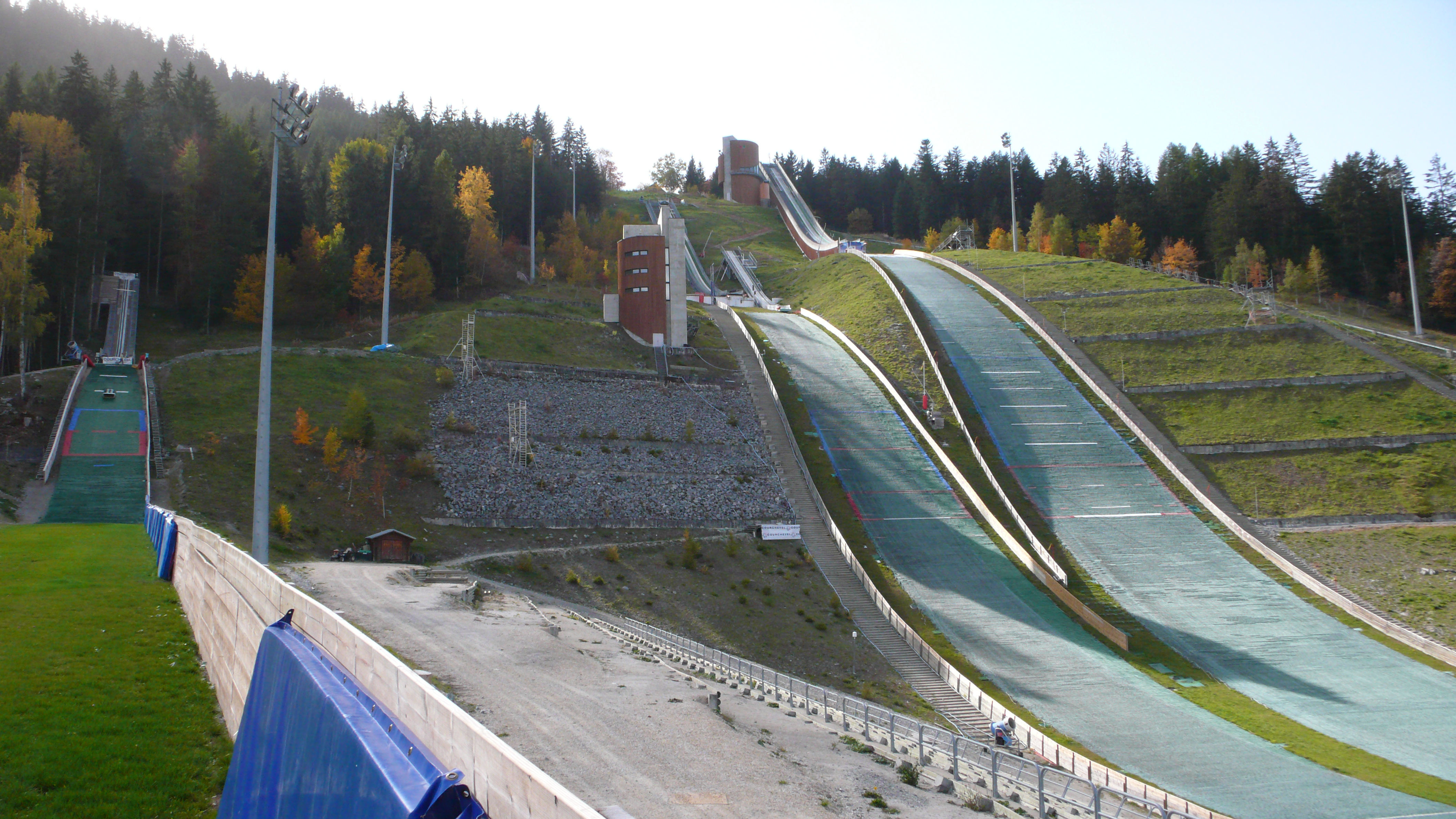 Le Praz - ski jumping hills in Courchevel : K25, K90, K60 and K120.